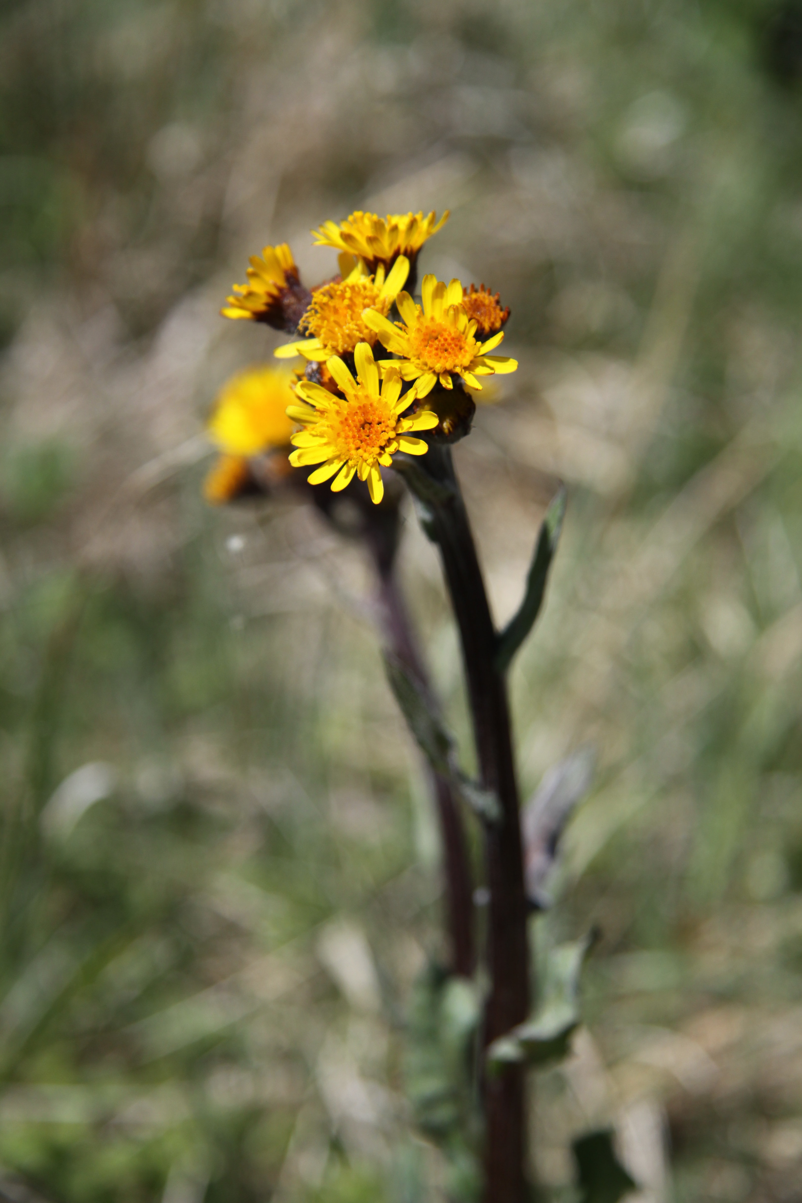 Tephroseris crispa. Natural monument Podhájí near Vacov village in Prachatice District, Czech Republic - Google Maps - Google Earth